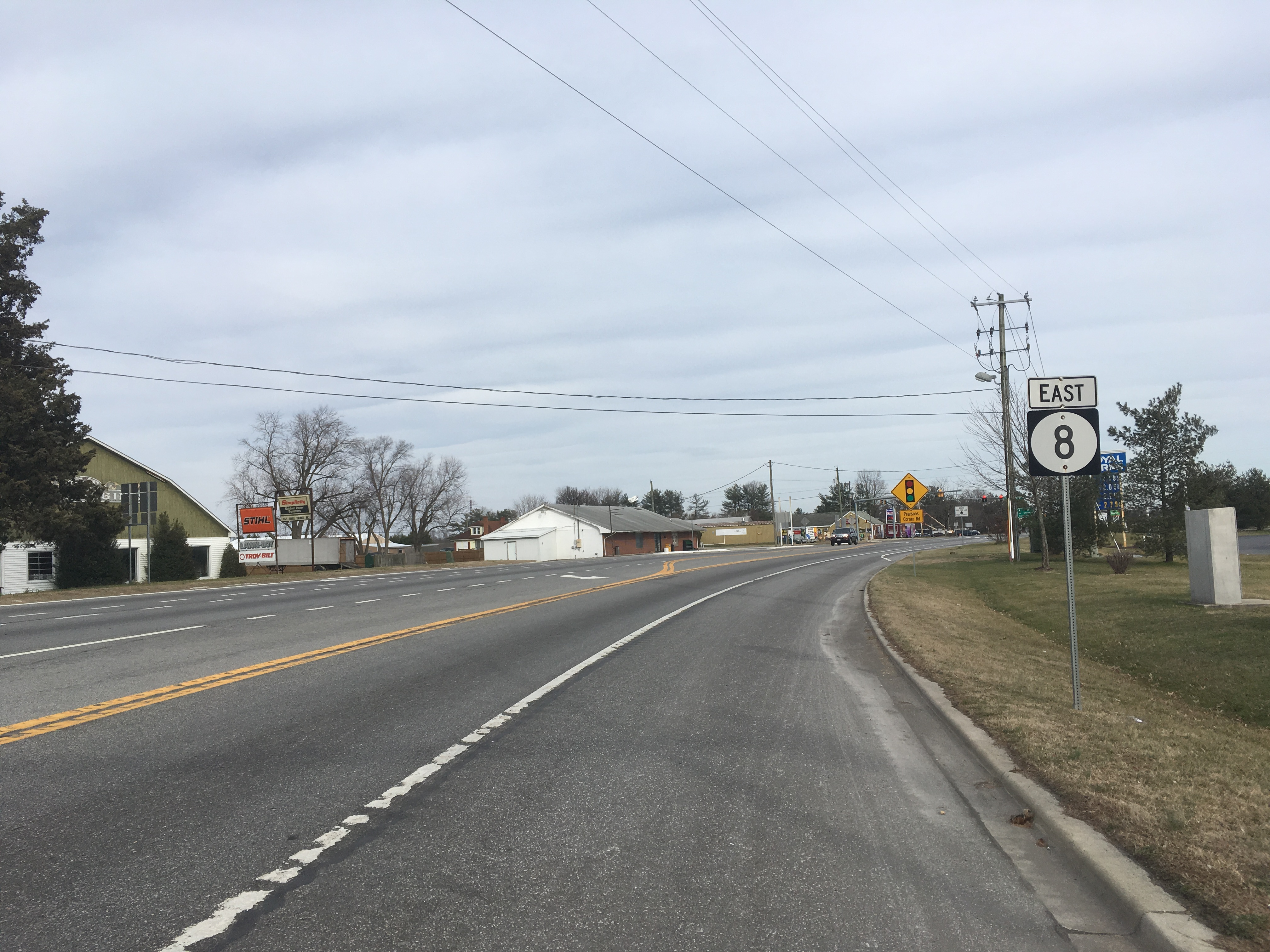 Eastbound Delaware Route 8 (Halltown Road) past the intersection with Delaware Route 44 (Hartly Road) in Pearsons Corner, Delaware